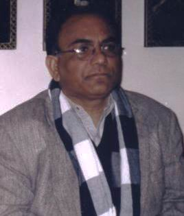 Masood Tanha